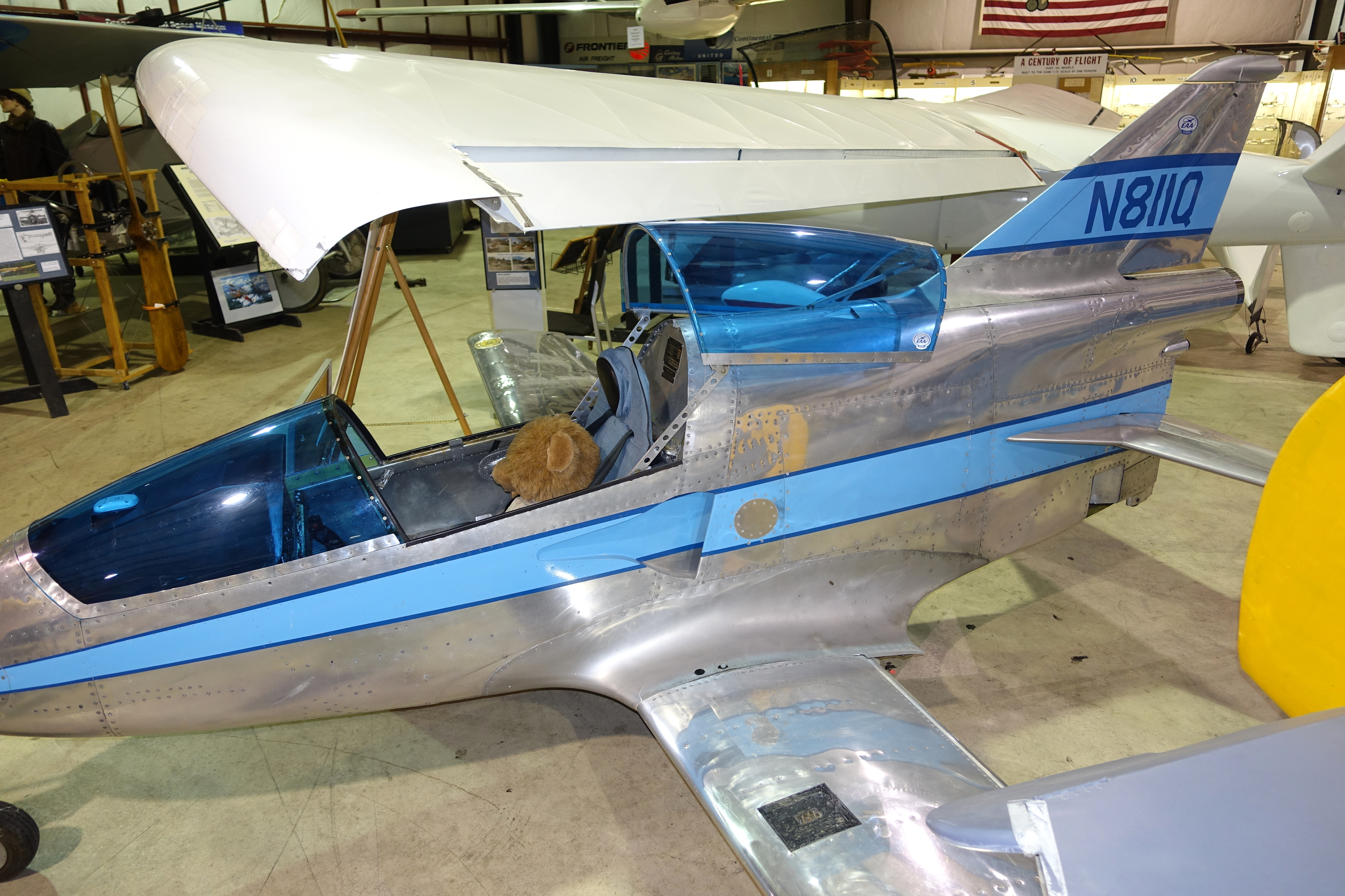 Exhibit in the Oregon Air and Space Museum - Eugene, Oregon, USA.